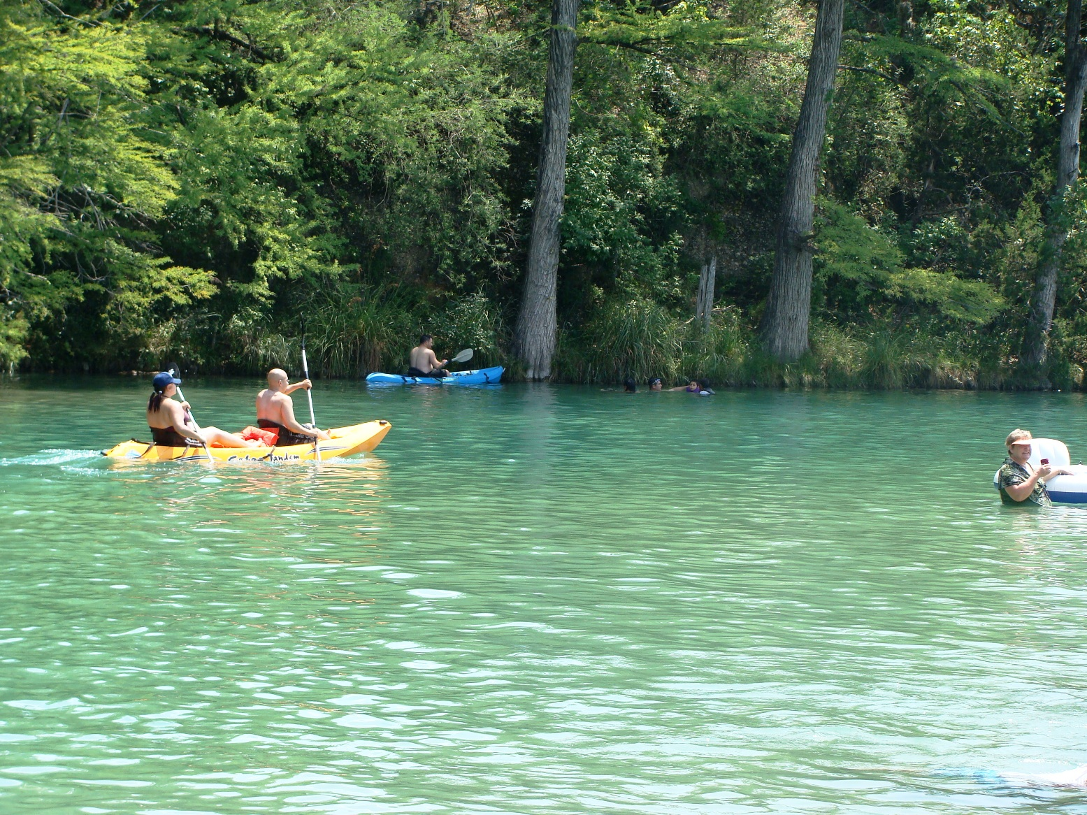 Garner State Park, Texas